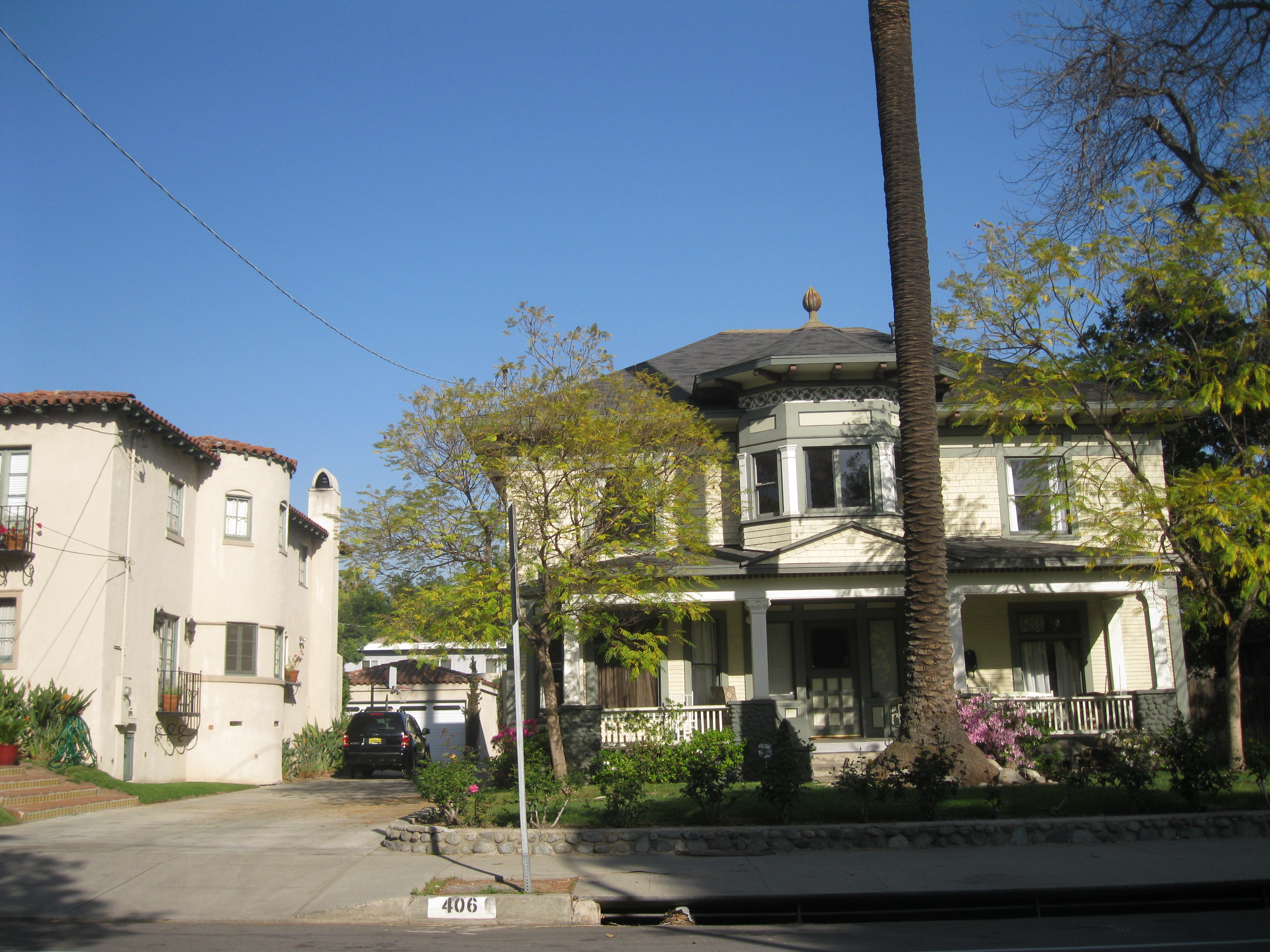 406 North Raymond Avenue, a house in the Raymond-Summit Historic District in Pasadena, California. 414 North Raymond Avenue is also visible to the left. The district is listed on the National Register of Historic Places.